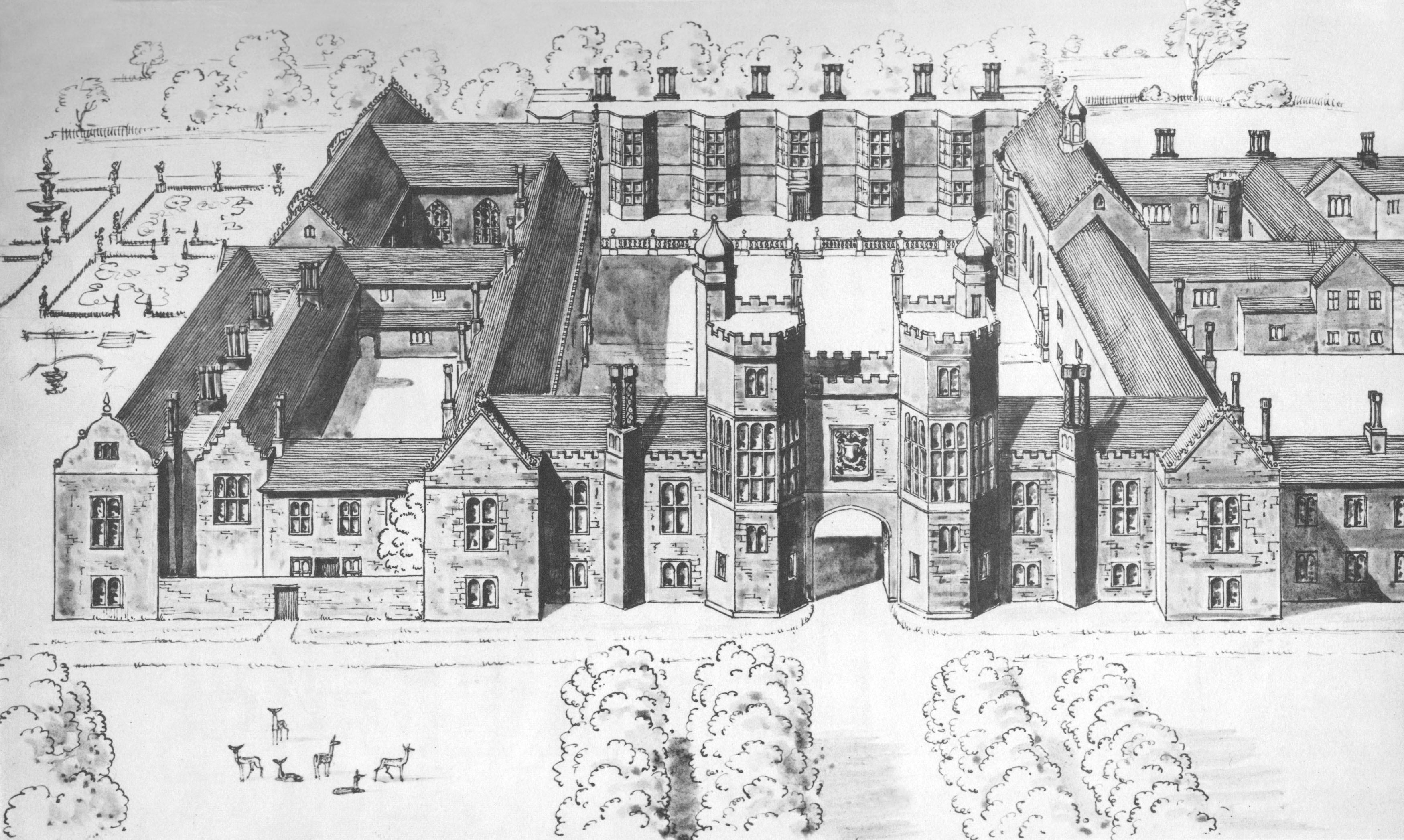 Beaulieu Palace built by Henry VIII now New Hall School, Chelmsford